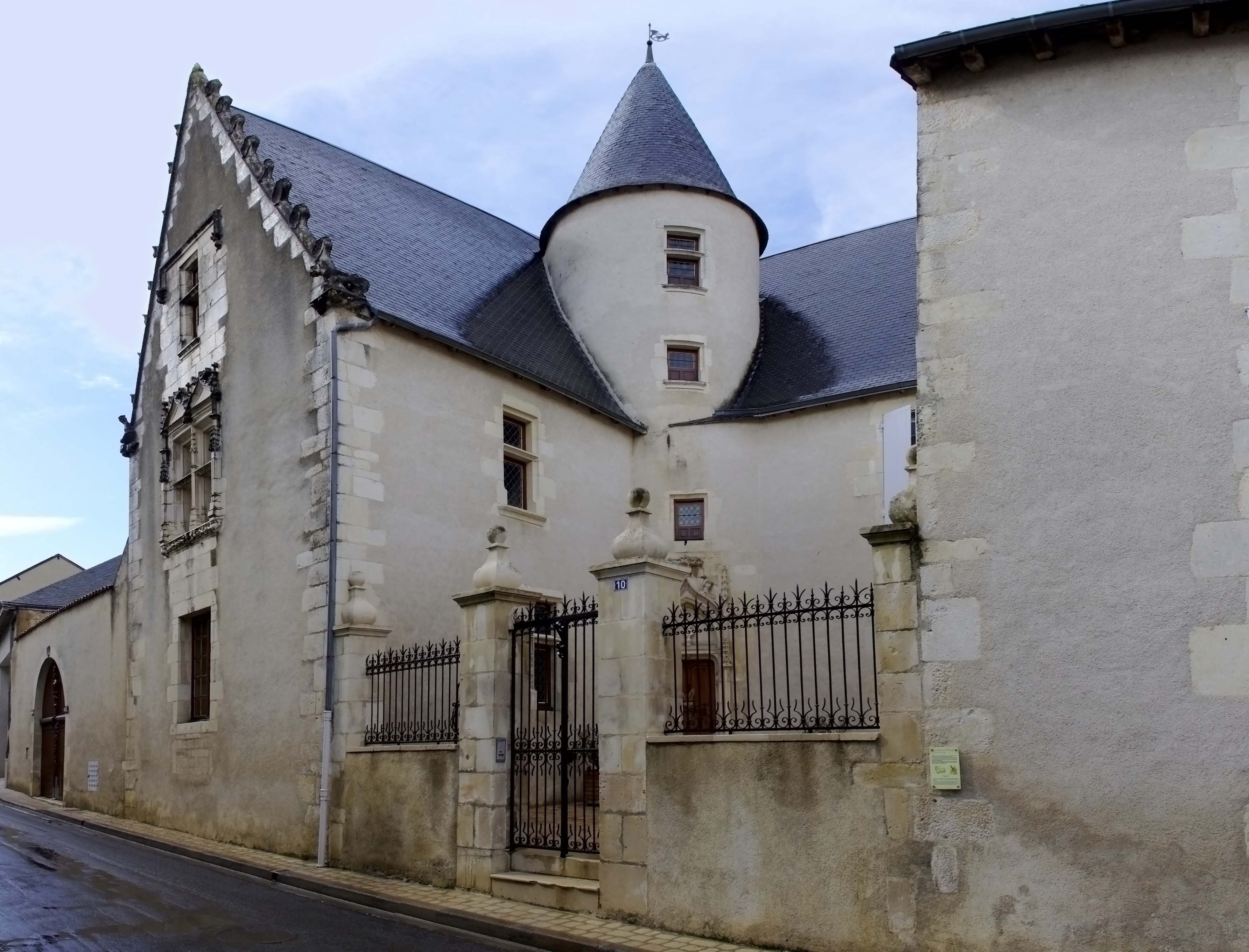 Hôtel Louis-XIII (end of the 15th century), Civray, Vienne, France. .